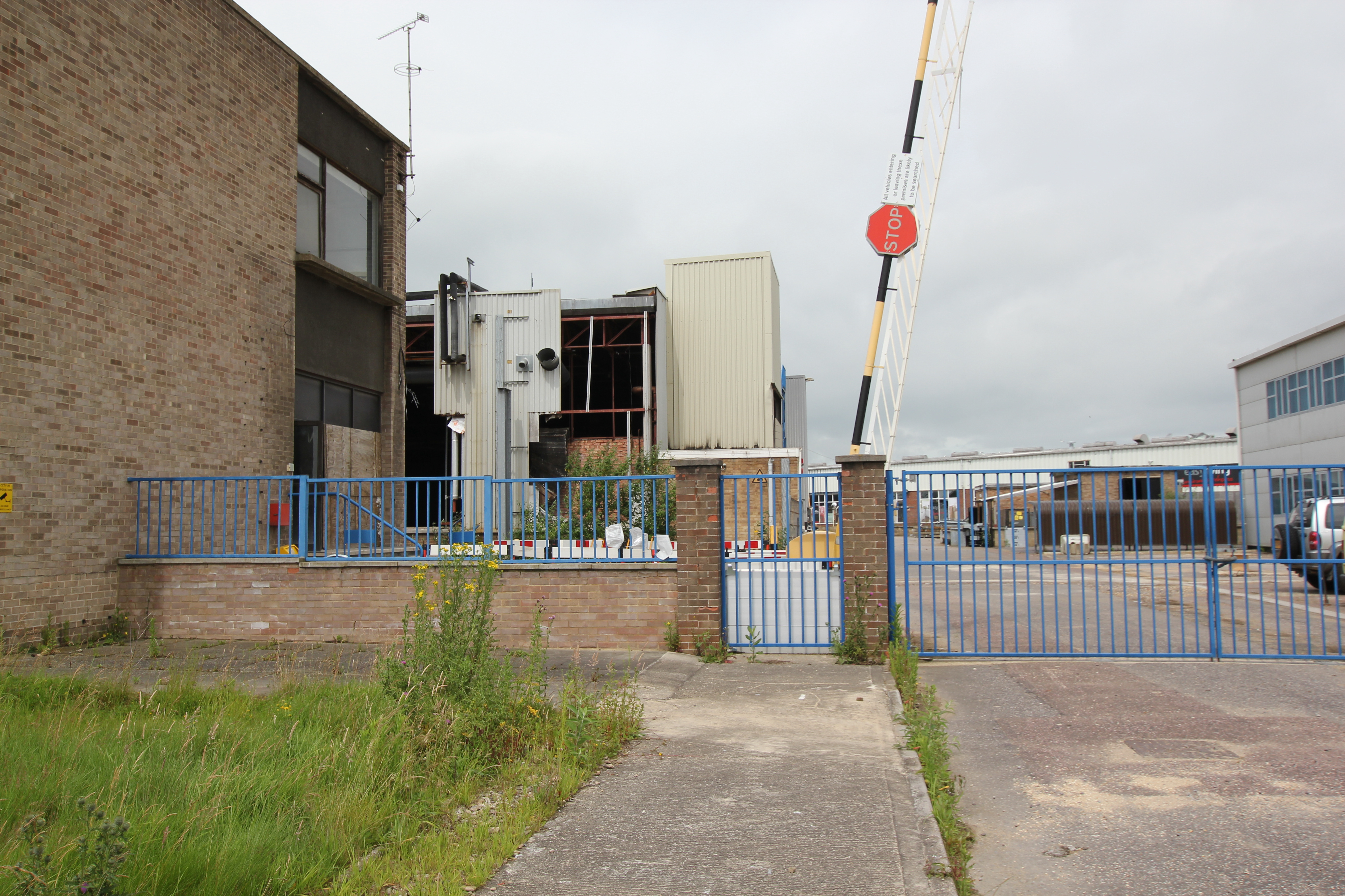 Demolition of the former Plessey Microelectronics or Semiconductors factory Cheyney Manor Swindon - demolition July 2012